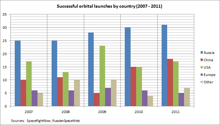 Successful orbital launches to space based on statistics and logs by SpaceFlightNow and RussianSpaceWeb.